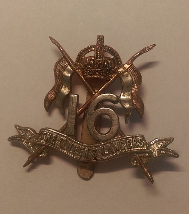 Photo of 16th The Queen's Lancers Cap Badge from personal collection